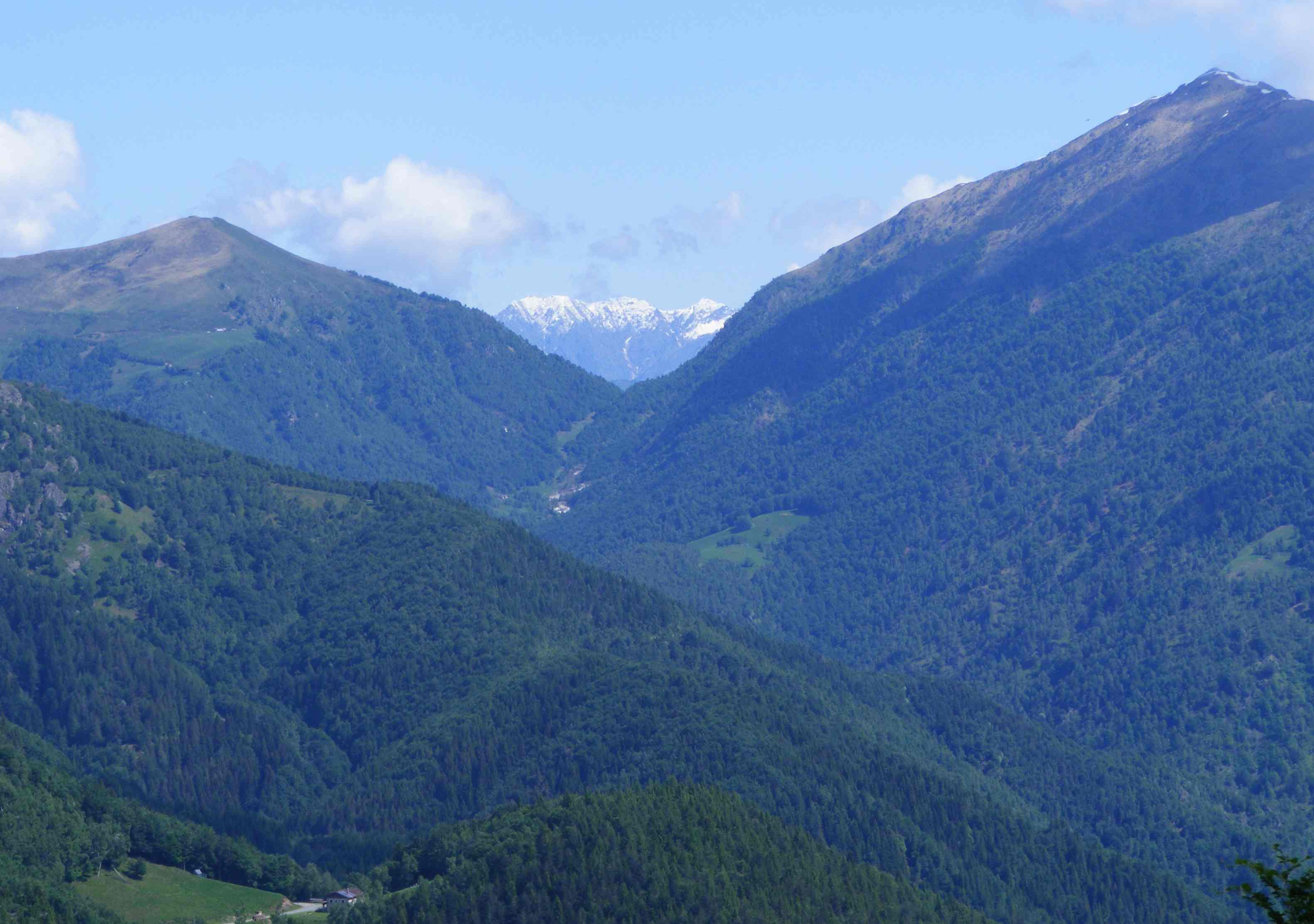 Bocchetta della Boscarola from Bocchetto di Sessera (Alpi Biellesi, Italy)